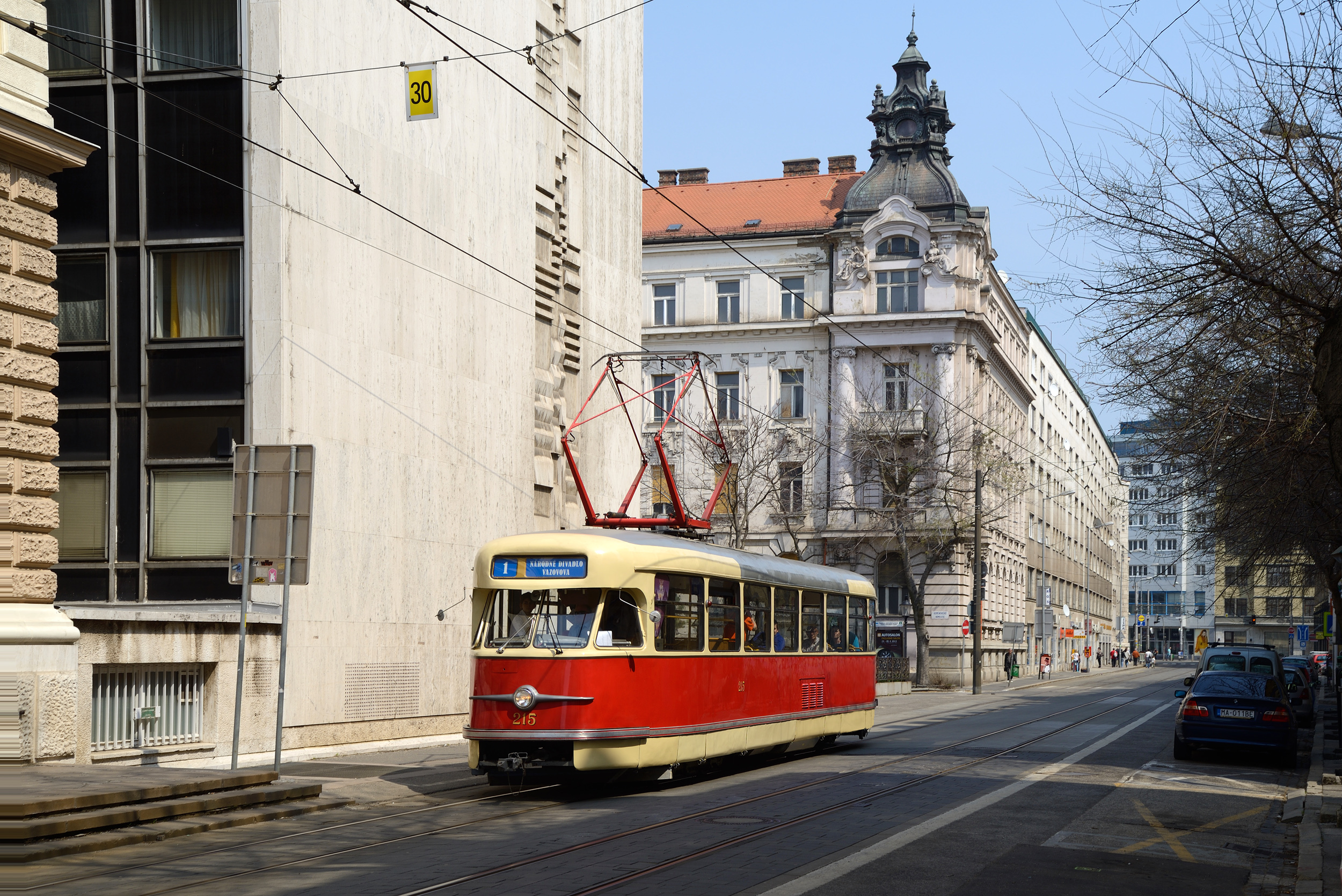 Tatra Type T2 Number 215 in Bratislava (Jesenskeho ulica)